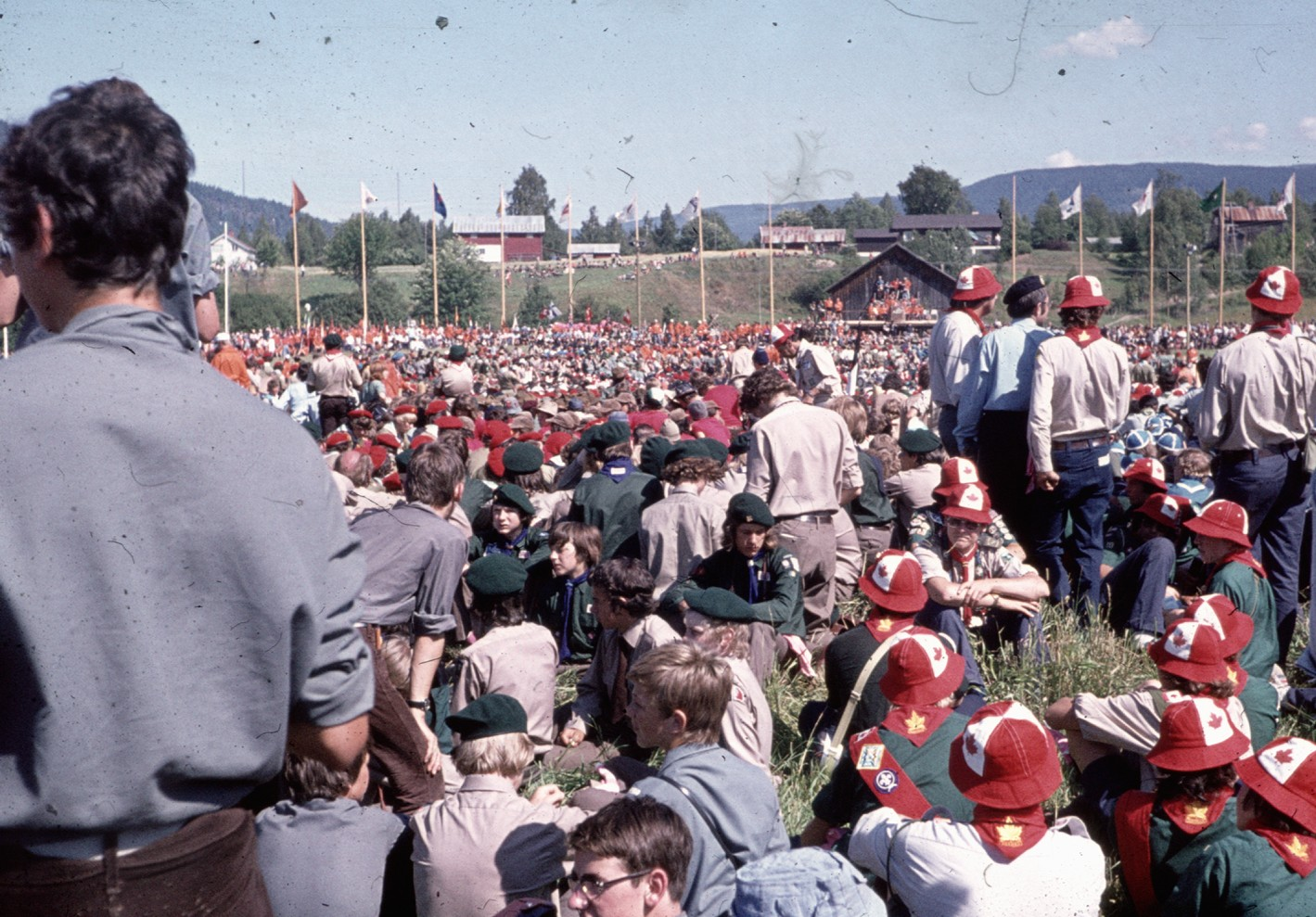 14th World Boy Scout Jamboree, Lillehammer 1975, Opening Ceremonies